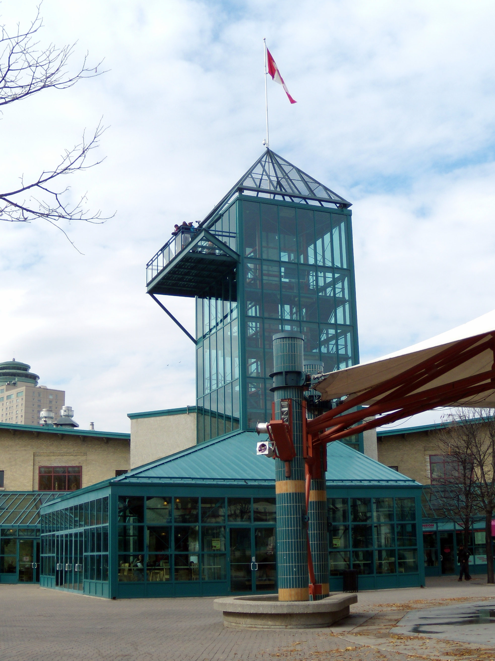 The Forks Market Tower in Winnipeg, Manitoba